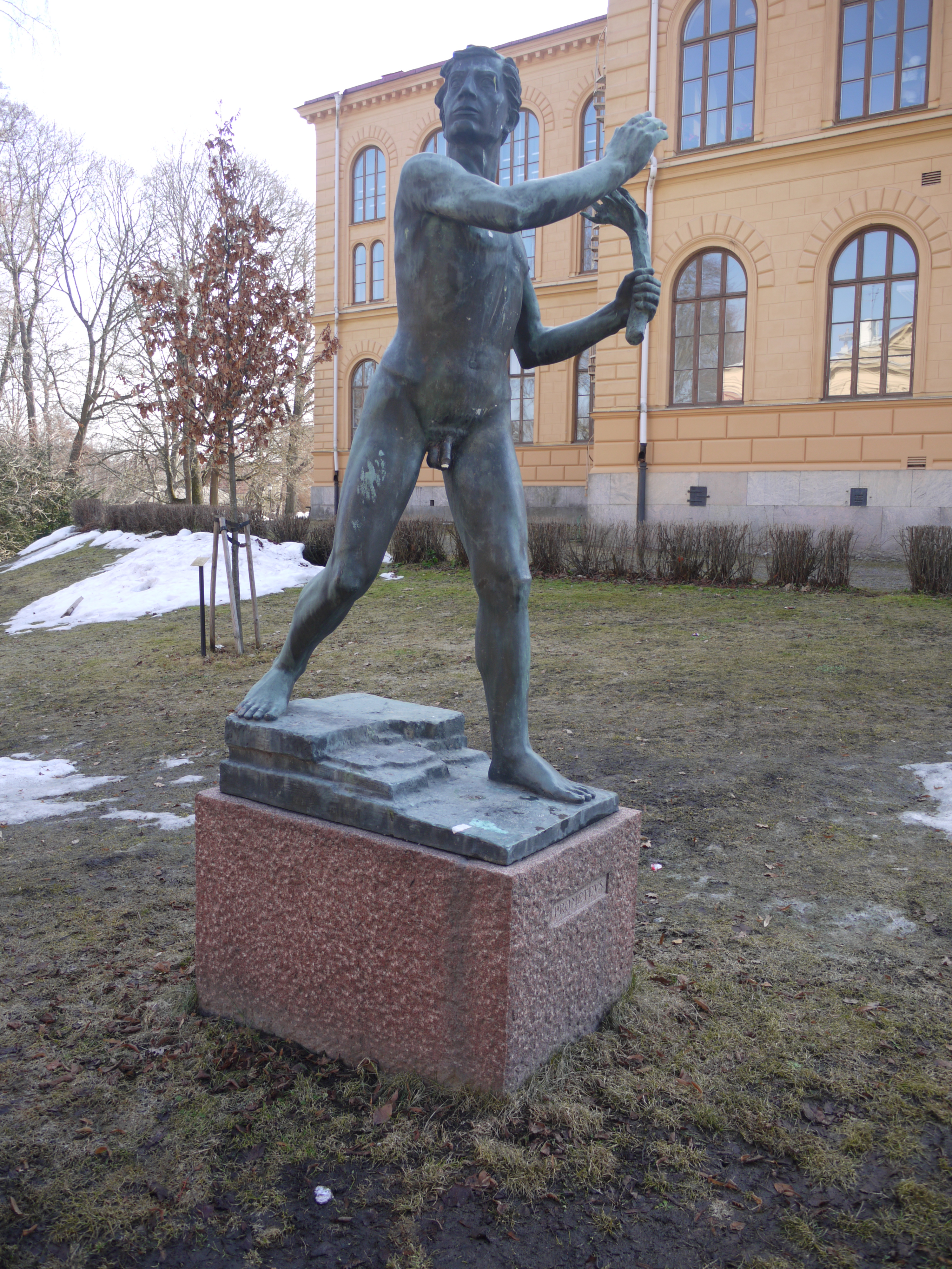 Photographs taken in early morning on the 3rd of april 2010 in Nyköping in Sweden